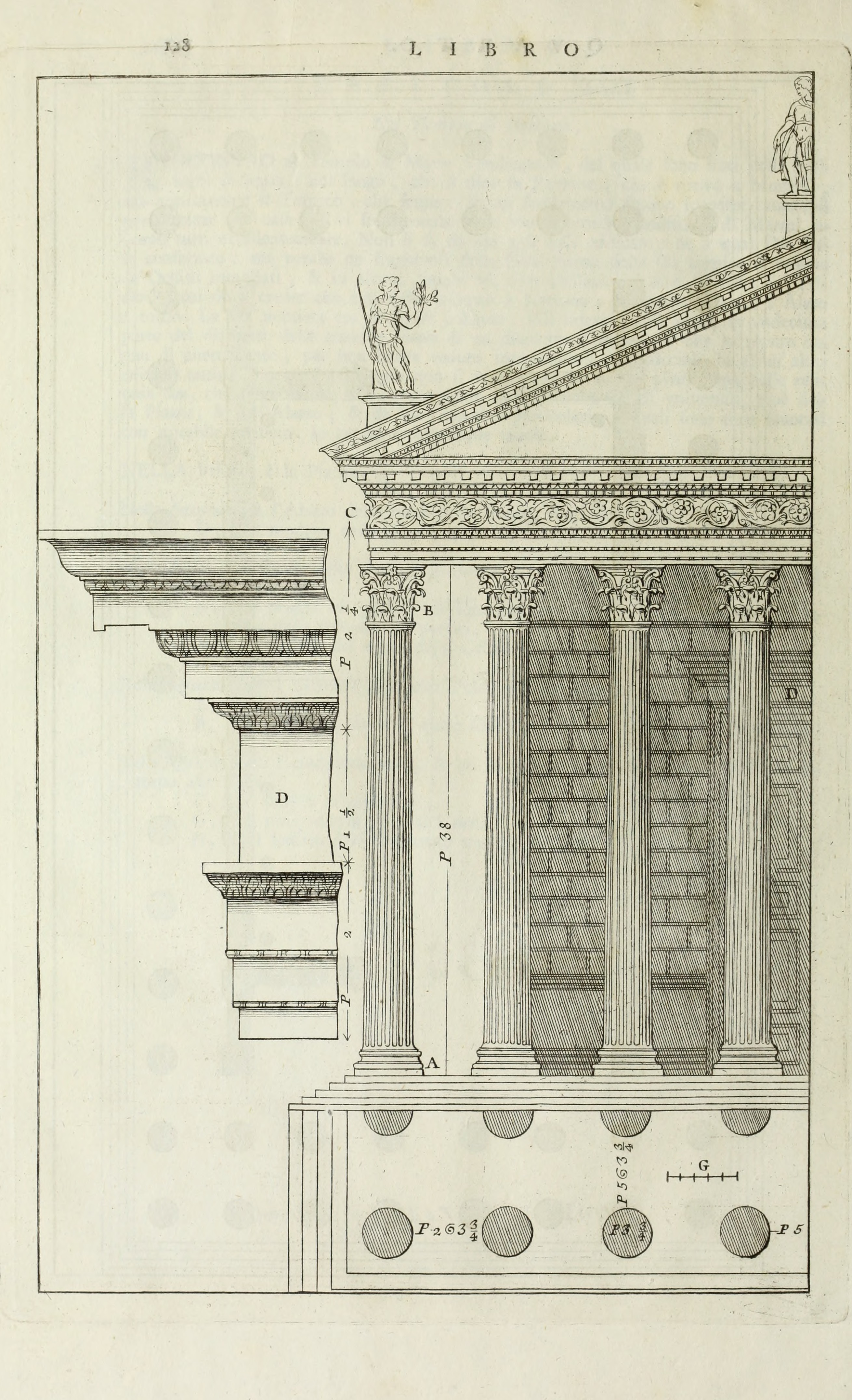 Title: I qvattro libri dell'architettvra di Andrea Palladio : ne' quali, dopo un breue trattato de' cinque ordini, & di quelli auertimenti, che sono piu necessarii nel fabricare; si tratta delle case private, delle vie, de i ponti, delle piazze, de i xisti, et de' tempij Year: 1771 (1770s) Authors: Palladio, Andrea, 1508-1580 Smith, Joseph, 1674-1770 Subjects: Architecture Architecture, Classical Architecture, Renaissance Publisher: In Venetia : Appresso Dominico de' Franceschi, (Venice) Text Appearing Before Image: uto venir in cognitione de gli vniuerfali, cioè del-la Pianta, & dell Alzato ; & de fuoi membri particolari , i quali fono tutti lauoraticon mirabile artificio. Io ne hò fatto cinque tauole. NELLA Prima , è la Pianta, Nella Seconda, è lAlzato della metà della fronte, fuori del portico. D, Eil modeno della porta. Nella terza, è lAlzato della metà della fronte, fotto il portico, cioè leuate via le pri-me colonne . A, Eil profilo de pilauri che fono intorno alla Cella del Tempio 5 allin-contro delle colonne de portici. E, E il profilo del muro della Cella nella parte di fuori. Nella Quarta fono i Membri particolari, cioè gli ornamenti. A, E la bafa . B, E il Capitello ; fopra il quale fono lArchitraue, il Fregio, e la Cornice. Nella Quinta fono i compartimenti , & gli intagli de fofntti de portici eh erano in-torno alla Cella. F, E il profilo de^foffitti. G, Eil piede diuifo in dodici onde. H, E il foffitto dellArchitraue tra vn capitello, e laltro. Q. V A R T O. 127 Text Appearing After Image: '